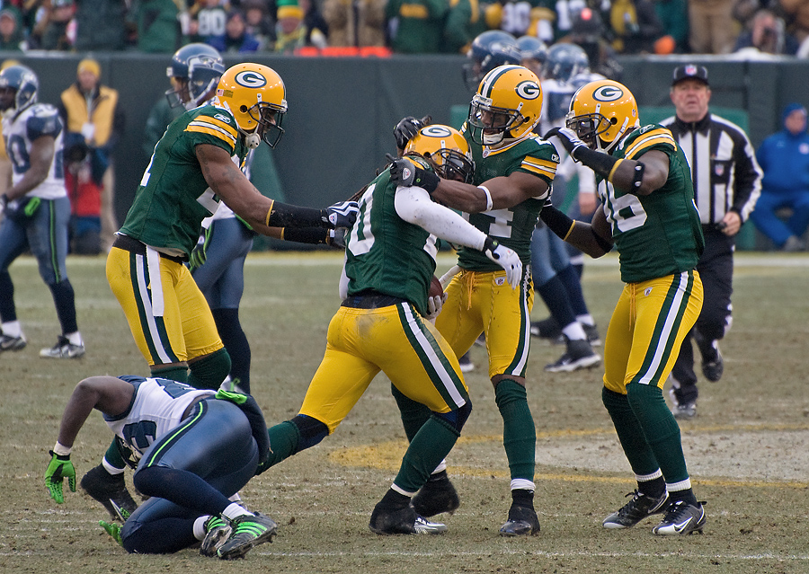 Seattle vs. Green Bay • December 27, 2009 at Lambeau Field in Green Bay, Wisconsin.